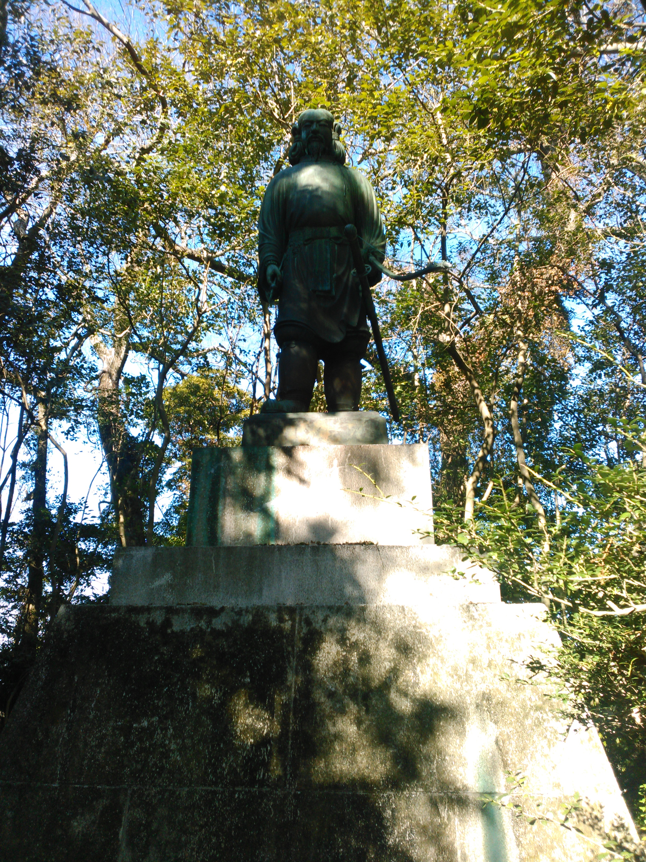 Toyohashi Park. Wataruken Shrine. Statue of Emperor Jinmu.